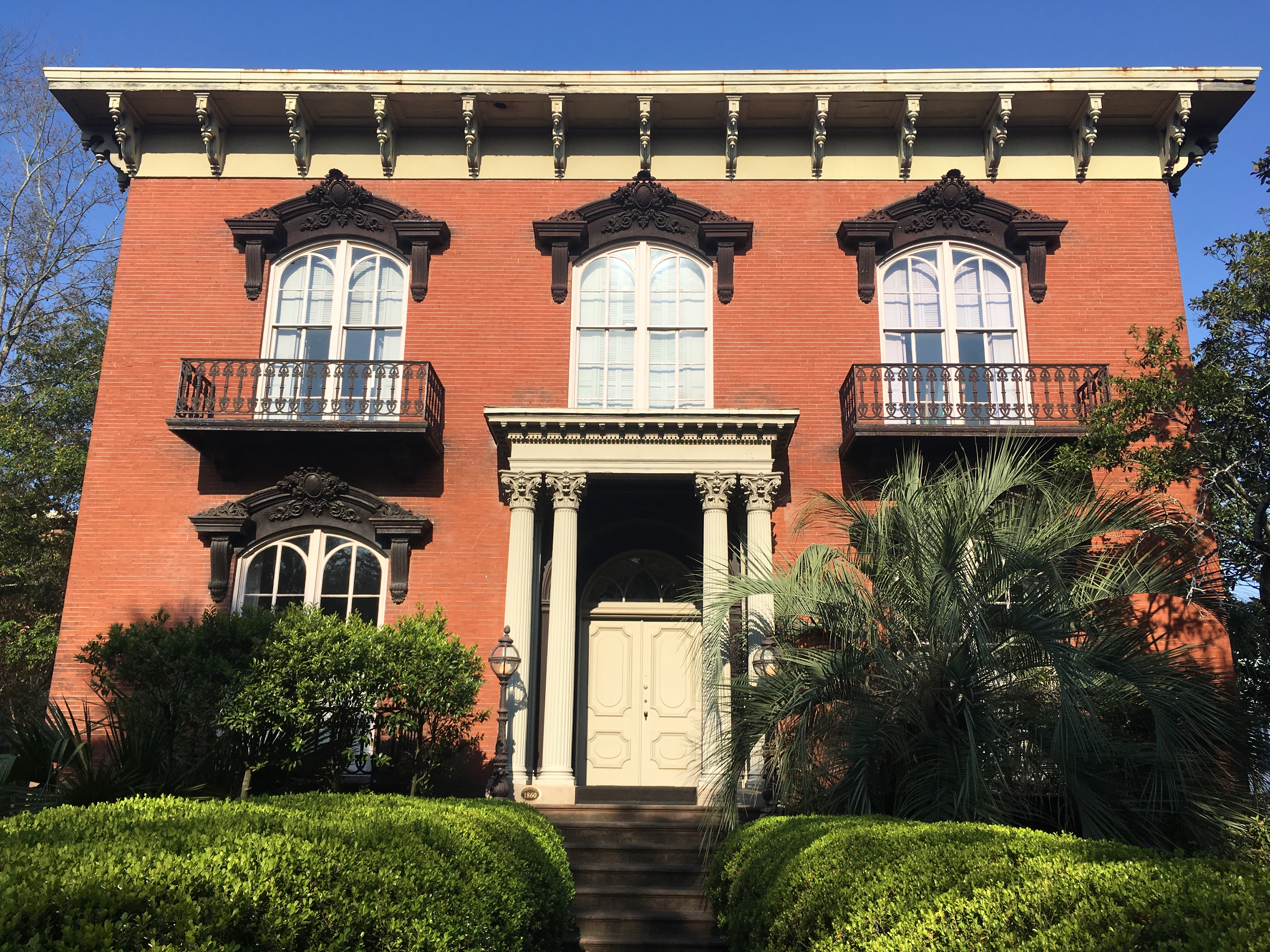 Location used in the film version of Midnight in the Garden of Good and Evil.